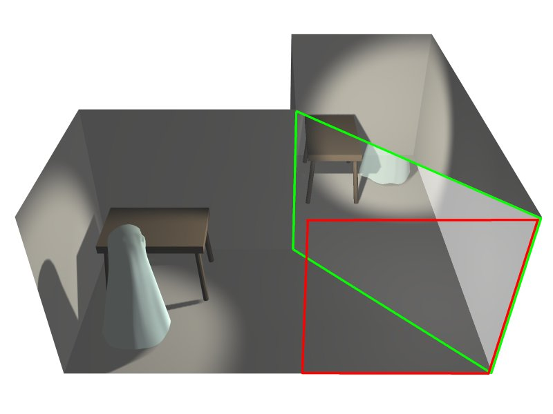 Illustration of the Pepper's Ghost illusion. Created by Wapcaplet in Blender.